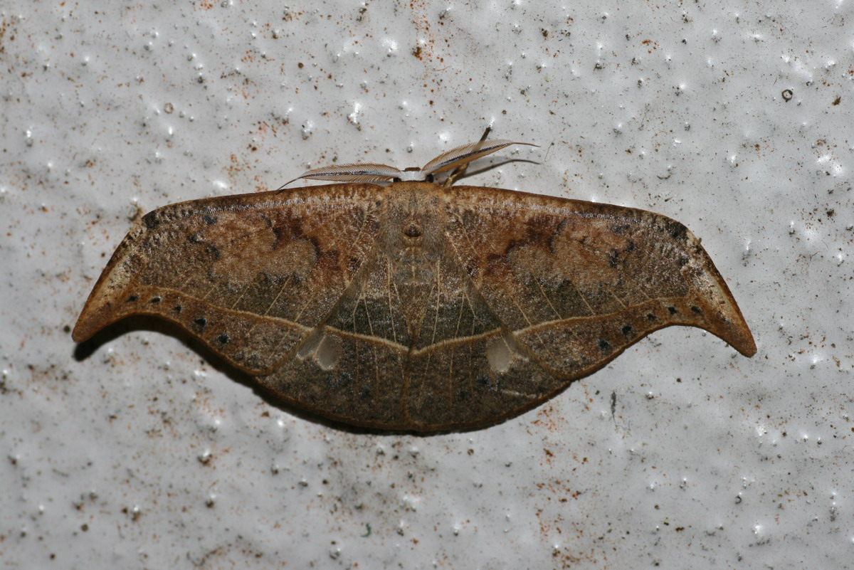 Malaysia, Fraser's Hill. March 2009